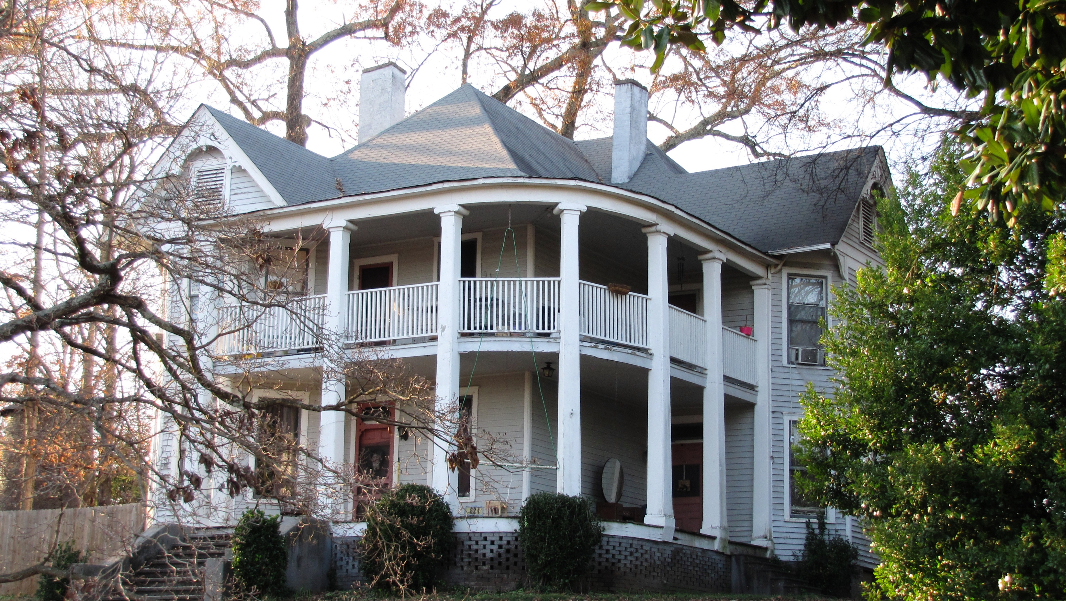 The McNutt-Howard House on West Broadway in Maryville, Tennessee, USA. Built in the early 1900s, this house is now listed on the National Register of Historic Places.